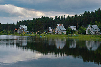 Dam Shiroka poliana, Rhodope mountains, Bulgaria.